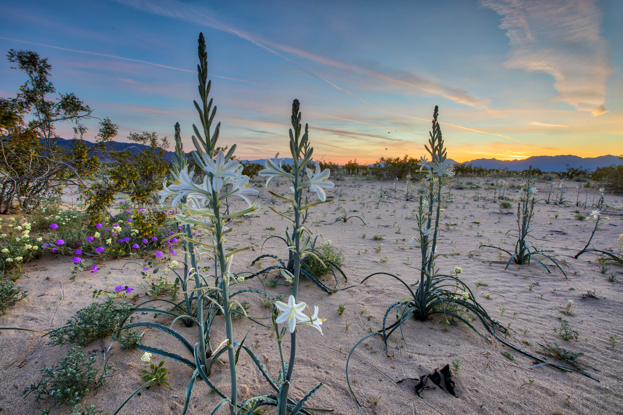 Desert lilies are blooming by the tens of thousands at their namesake preserve. Located about 8 miles north of I-10 at Desert Center (drive north on highway 177 to mile marker 7), the Desert Lily Preserve was first protected in 1968 and is now part of the Desert Renewable Energy Conservation Plan (#DRECP) California Desert Conservation Lands. Photo by Bob Wick, BLM.